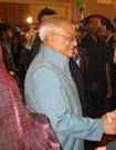 President of Maldives Maumoon Abdul Gayyoom (greeting U.S. Embassy Charge d'Affaires James Moore) at Maldives National Day celebrations in Male' on July 26, 2007.